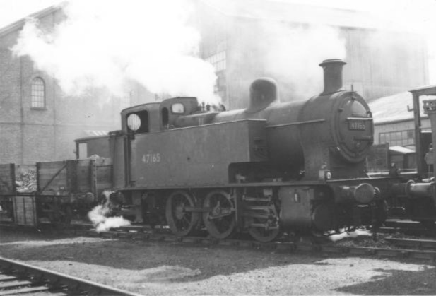 LMS Fowler Dock Tank 47165 at Fleetwood, Lancashire